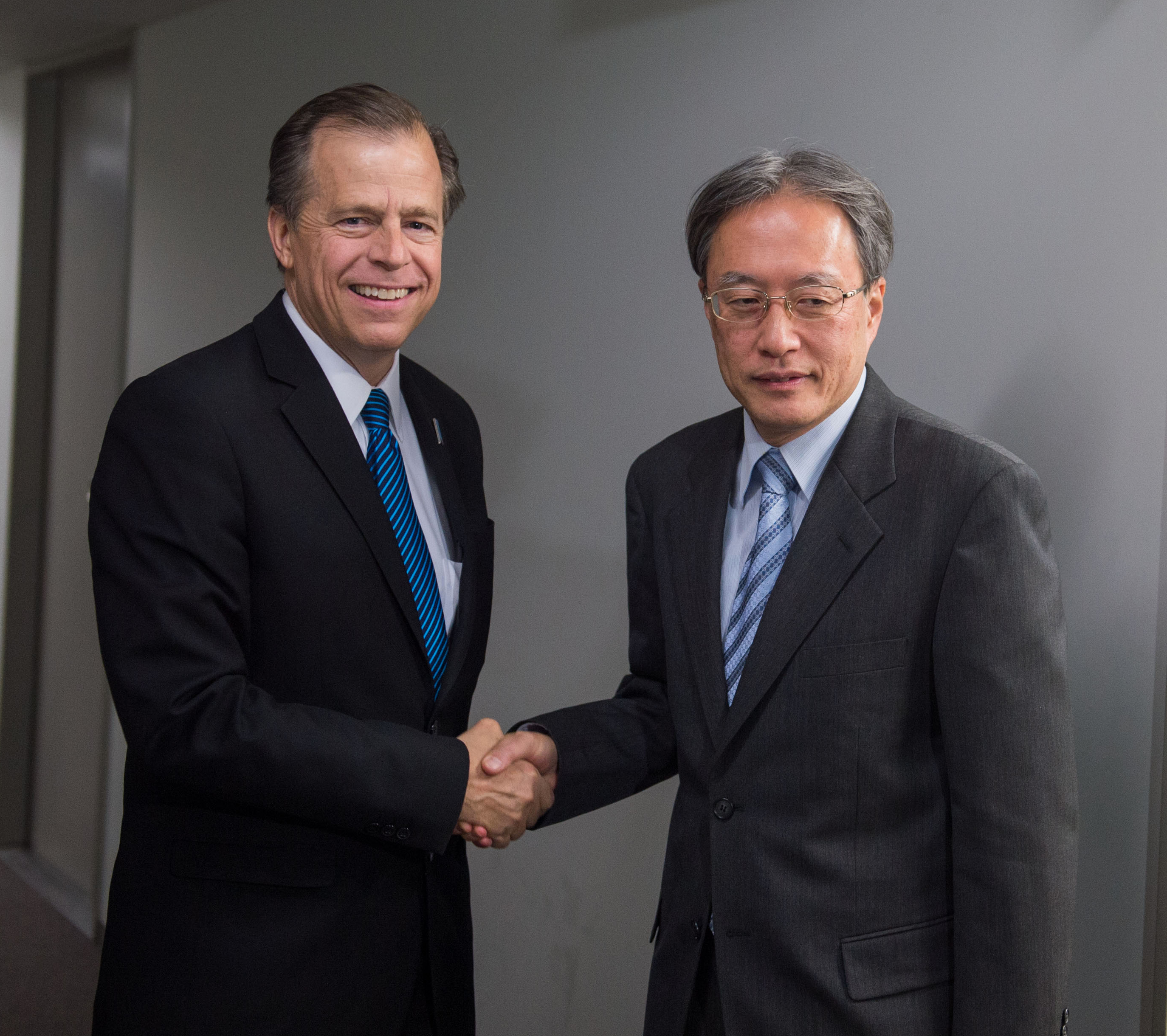 Glyn Davies, Special Representative for North Korea Policy, met Jun'ichi Ihara, Director-General of the Asian and Oceanian Affairs Bureau, Ministry of Foreign Affairs, at the Ministry of Foreign Affairs Main Building in Chiyoda Ward, Tōkyō Metropolis on November 25, 2013.